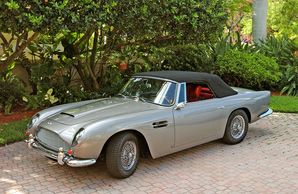 Shane D. Mattaway's photograph of his 1965 Aston Martin DB5 Vantage Convertible. Photo taken at his home on 5/13/2004 at 5:36:08 PM EST with his Nikon D1X at focal length 30mm, shutter speed 1/200 and aperture of f/6.7.